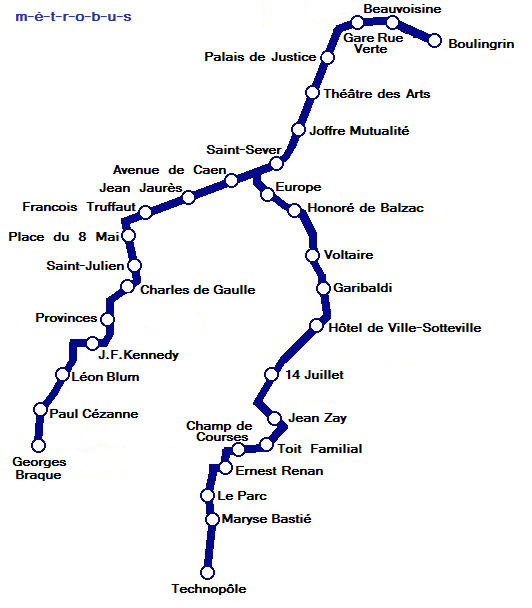 Map of Tramway de Rouen, Normandie.